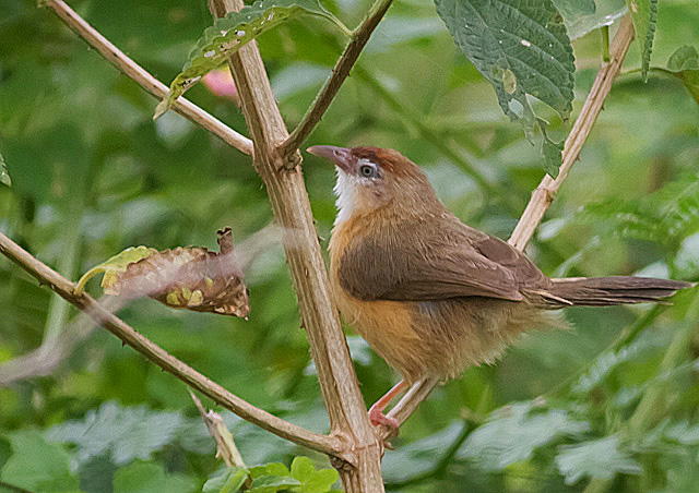 Tawny-bellied Babbler Dumetia hyperythra, Hambantota Sri Lanka